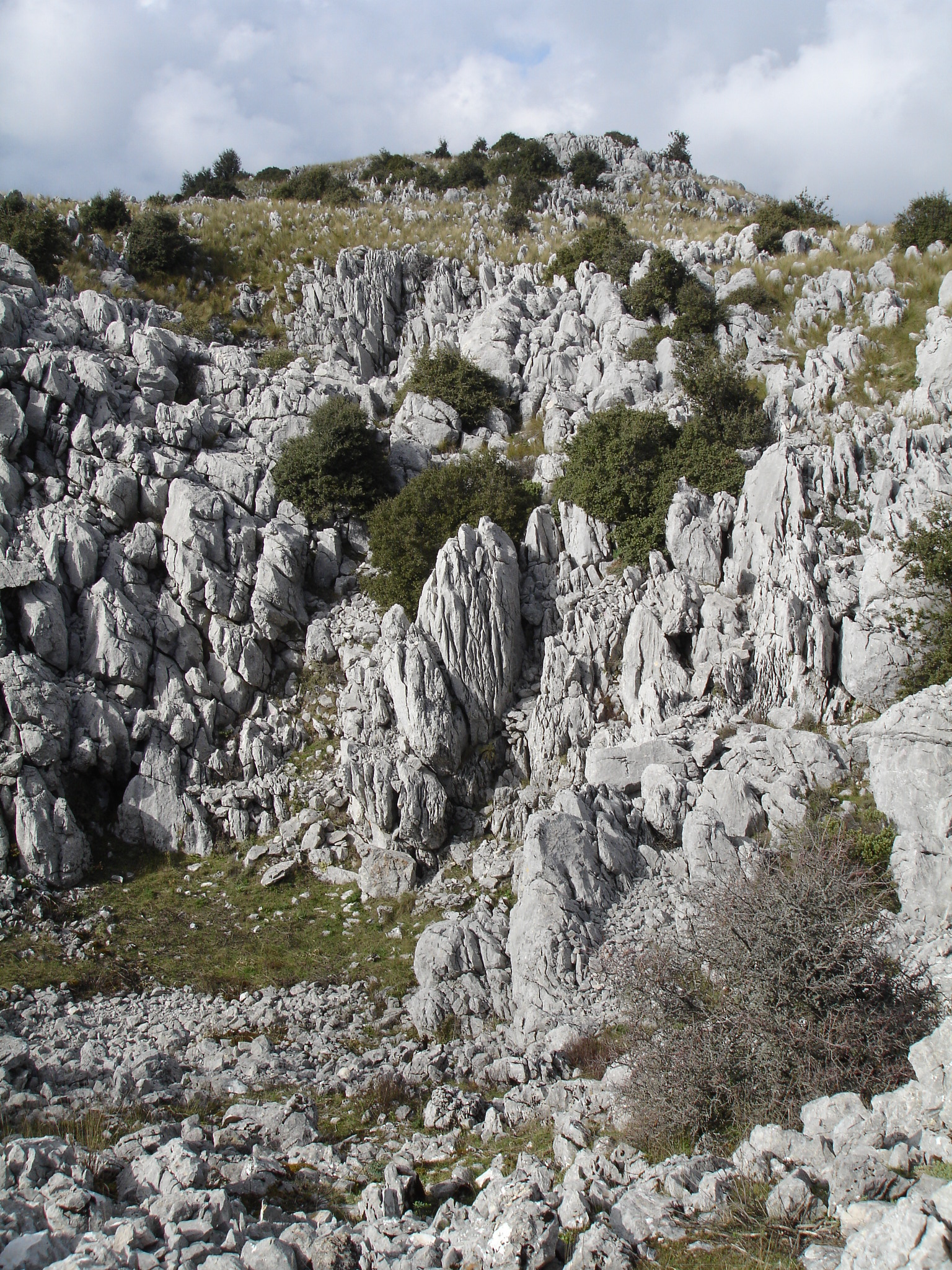 Navazos near the top of Navazo Alto